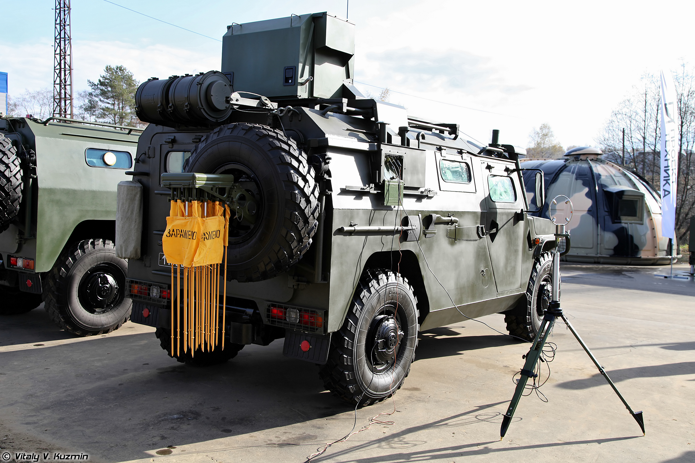 RKhM-VV